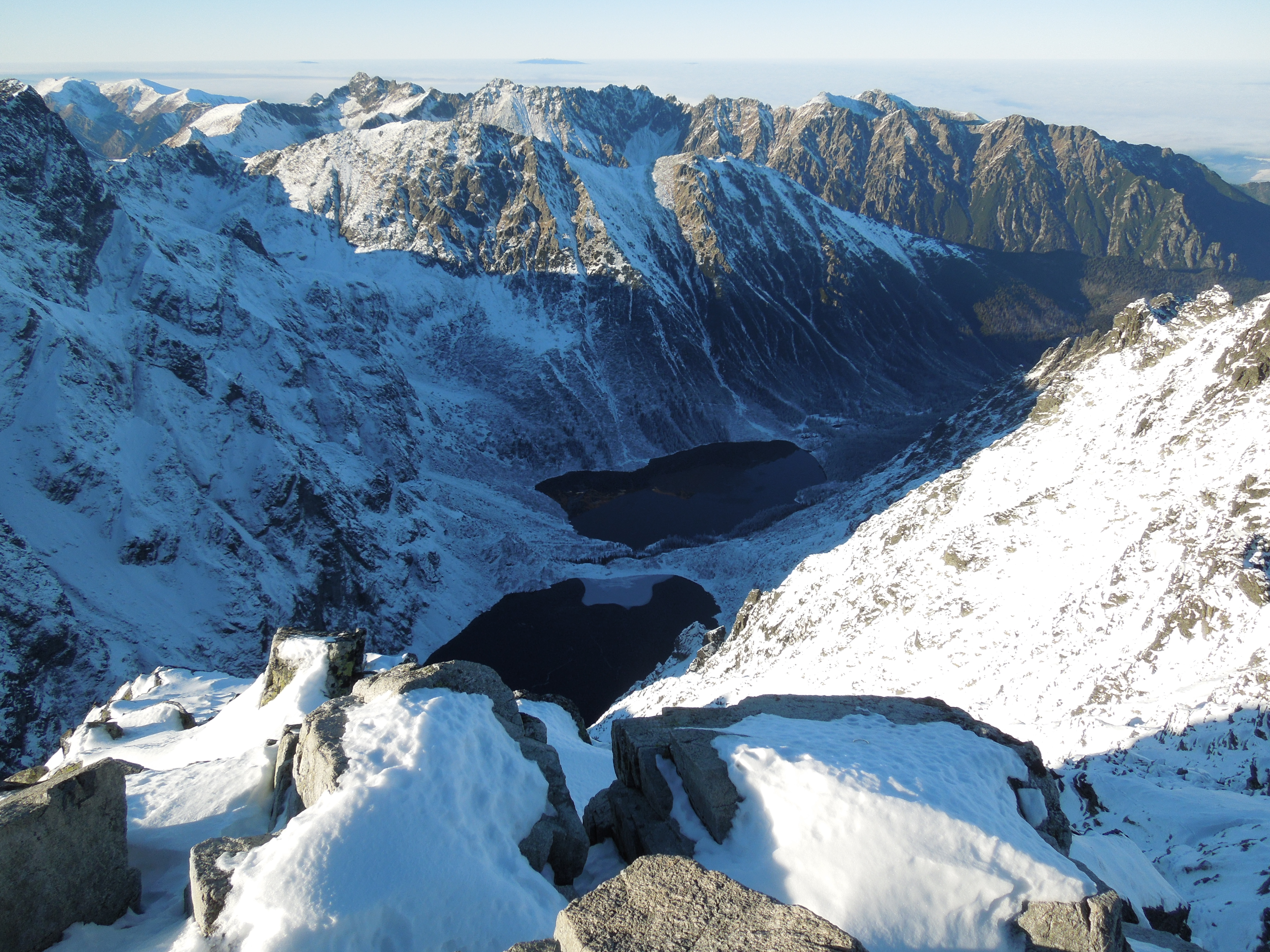 View from Rysy to Czarny Staw pod Rysami and Morskie Oko This is a photography of Natura 2000 protected area with ID PLC120001 This is a photography of protected area with CRFOP ID PL.ZIPOP.1393.N2K.PLC120001.B